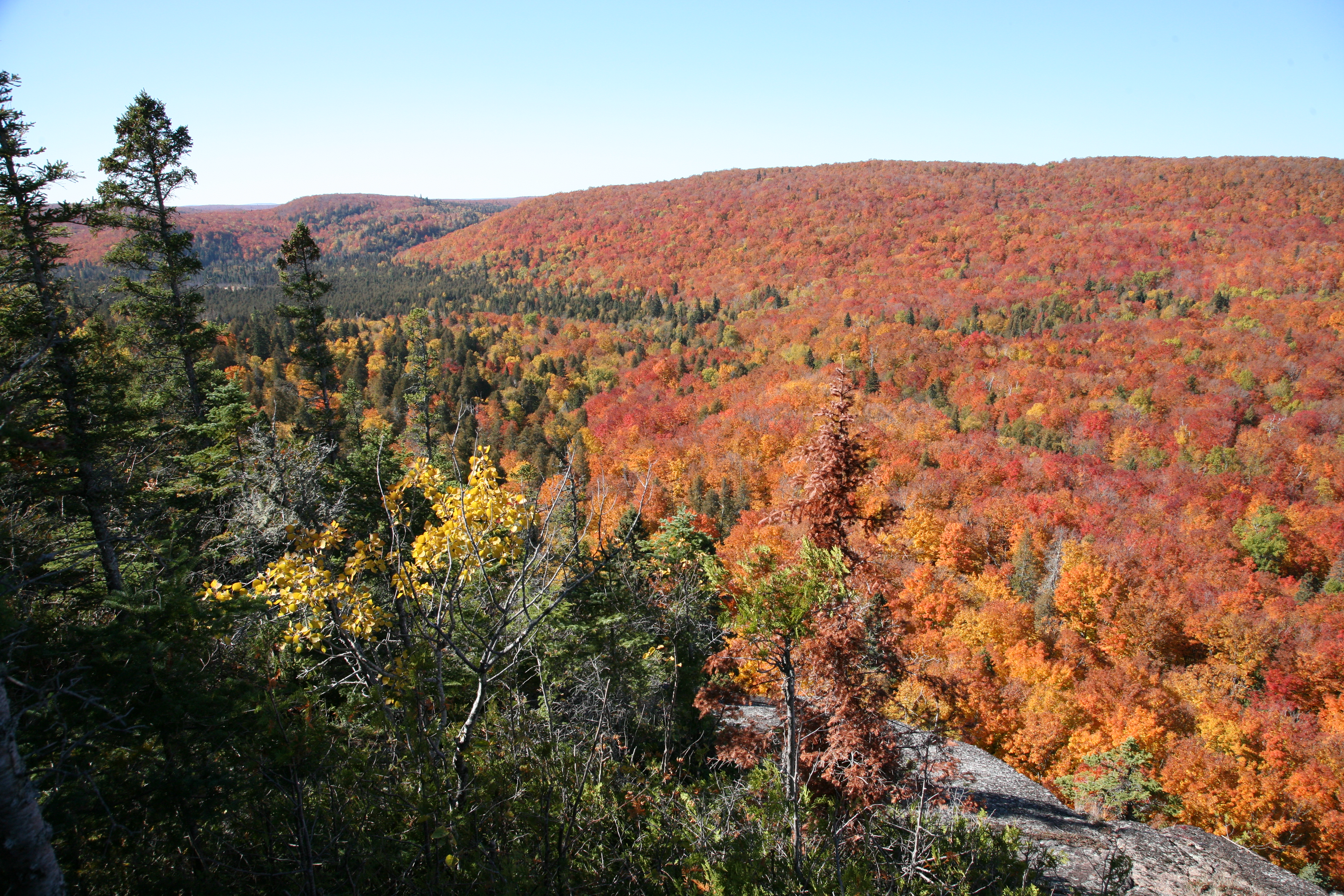 View of the beautiful fall colors from top of Moose Mountain